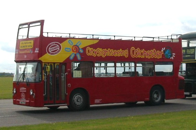 Talisman bus 77 (reg. YNO 77S), a 1978 Leyland Atlantean AN68 double-decker with ECW bodywork, pictured at Showbus 2004 wearing City Sightseeing Colchester livery. It was new to Colchester Transport as their fleet no. 77. They took delivery of 36 of this chassis/body combination between 1975 and 1980, numbering them consecutively from 55 to 90, in various registration series.